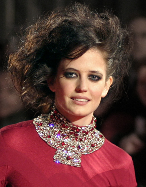 Eva Green at the BAFTAs at the Royal Opera House in London.